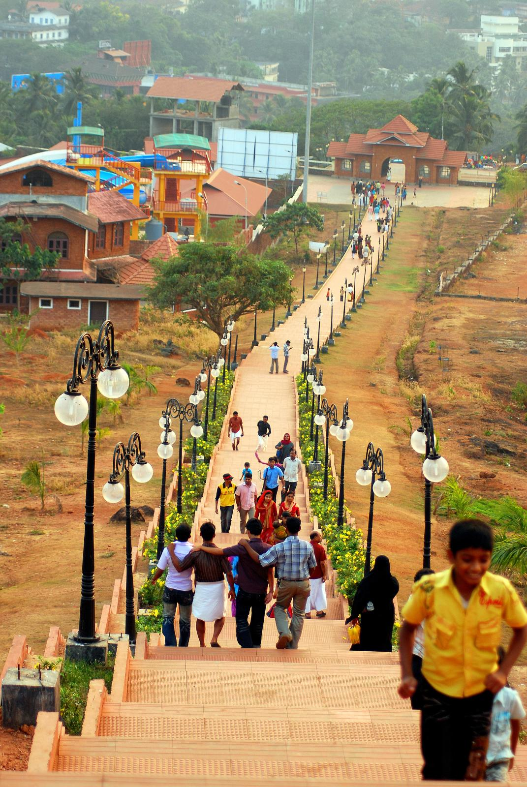 Malappuram Kottakkunnu, a historic spot of importance and a popular public meeting place at Malappuram, Kerala.